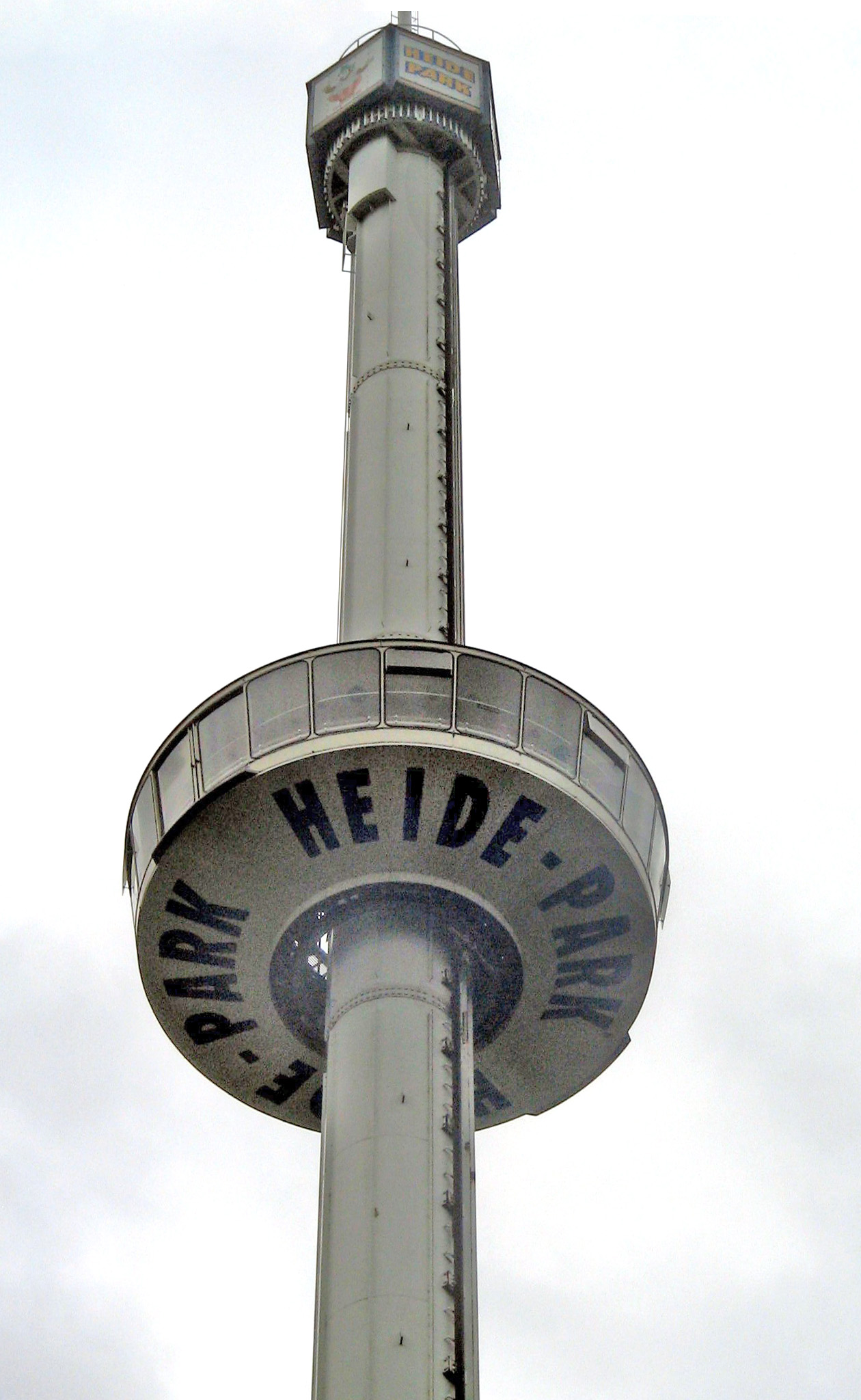 observation tower in the Heide-Park photo taken on August 2005